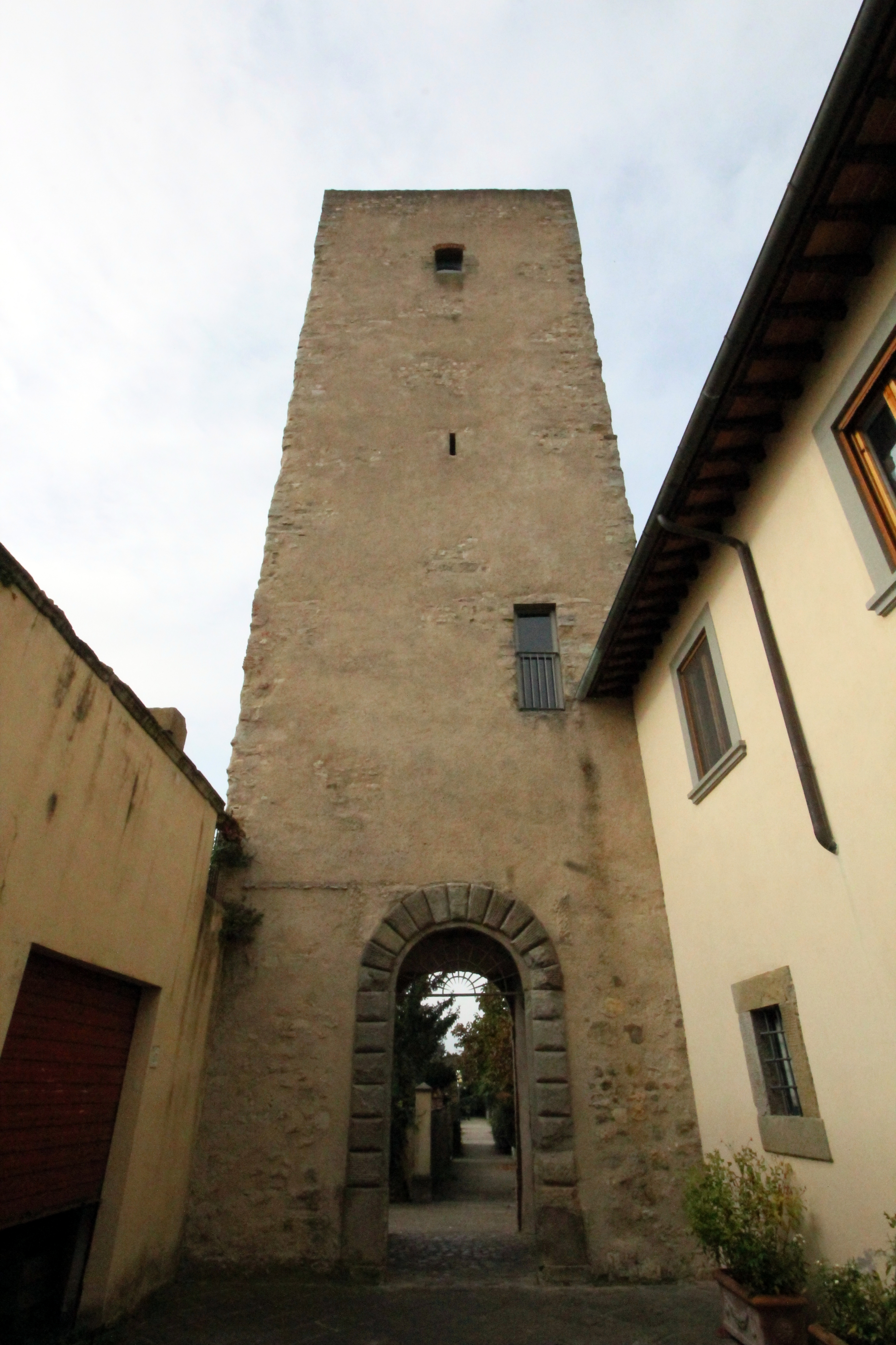 City Gate Porta Guinigi (or Torre Guinigi), Laterina, Province of Arezzo, Tuscany, Italy